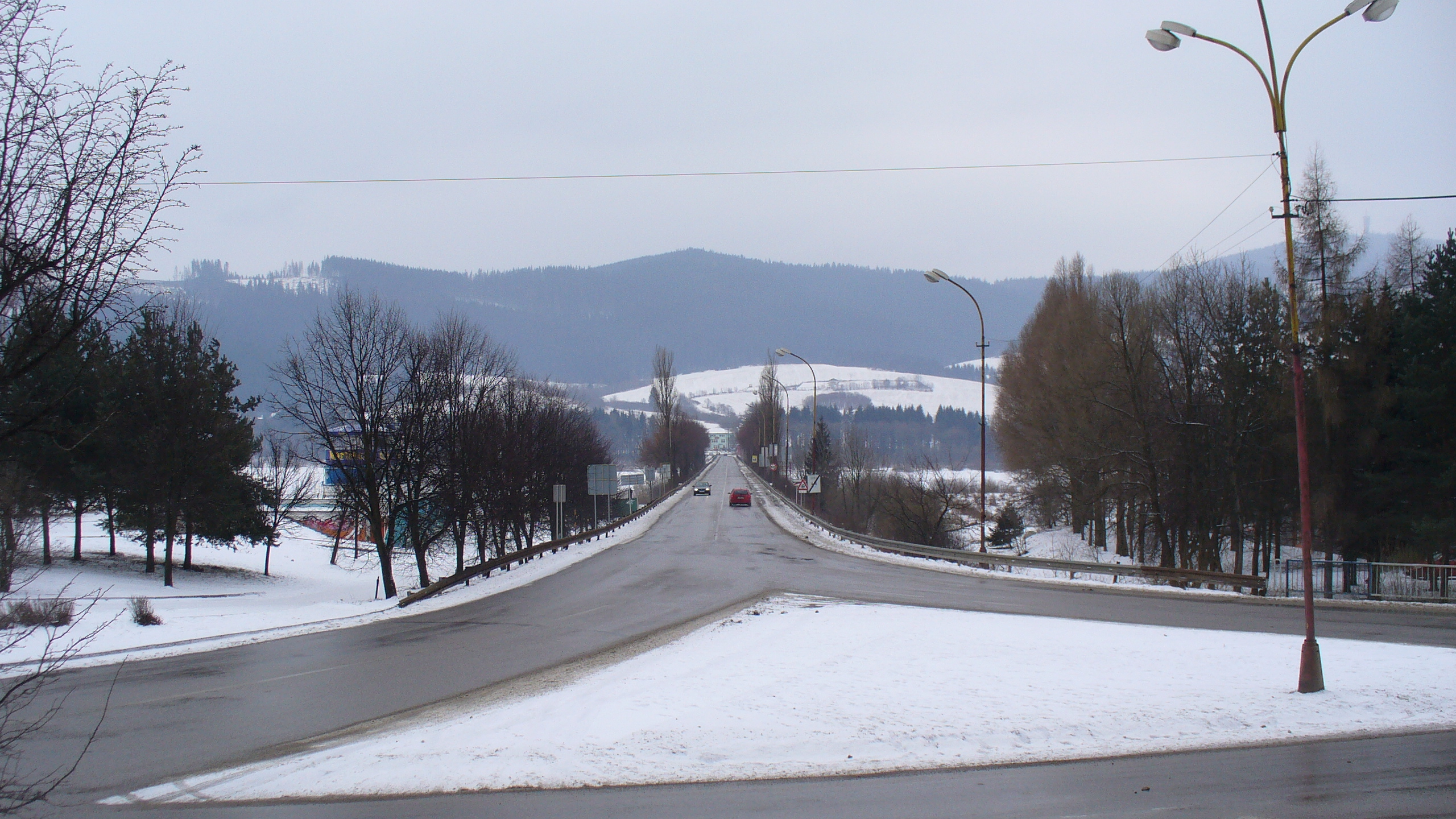 View bridge above the Orava reservoir in Námestovo (northern Slovakia). Former crossroad is now (2019) replaced by roundabout.